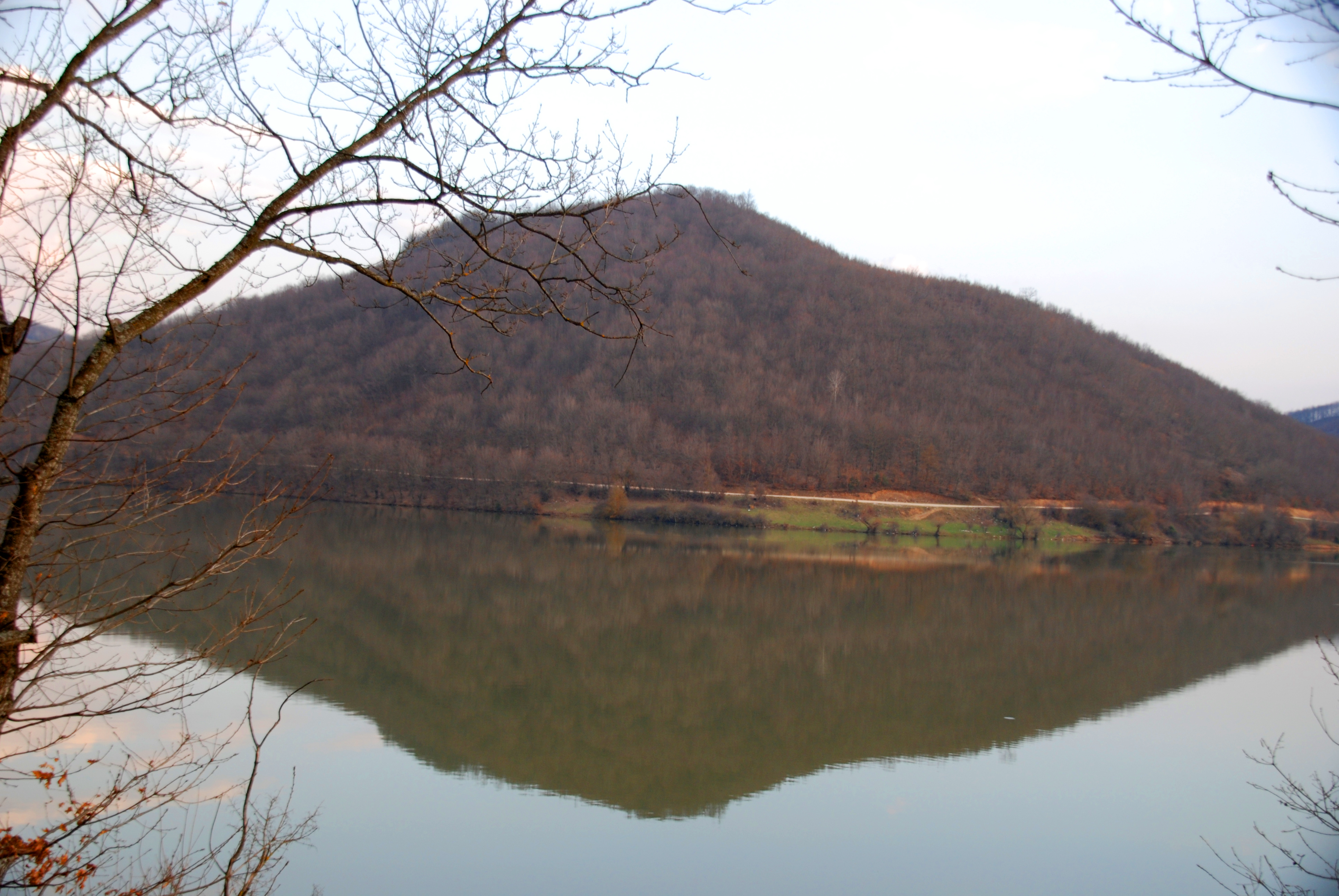 photo: Arian Selmani